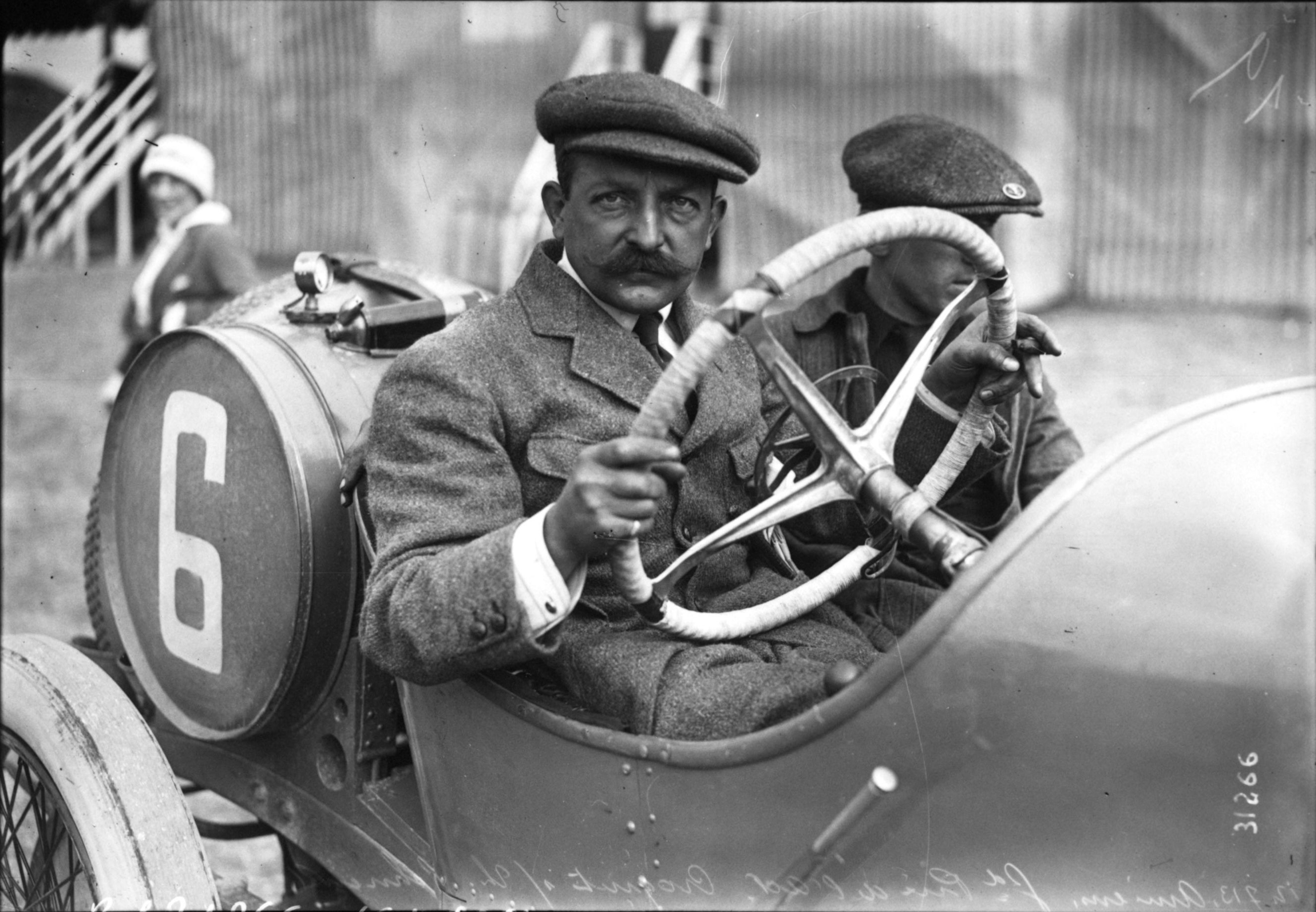 René Croquet at the 1913 French Grand Prix